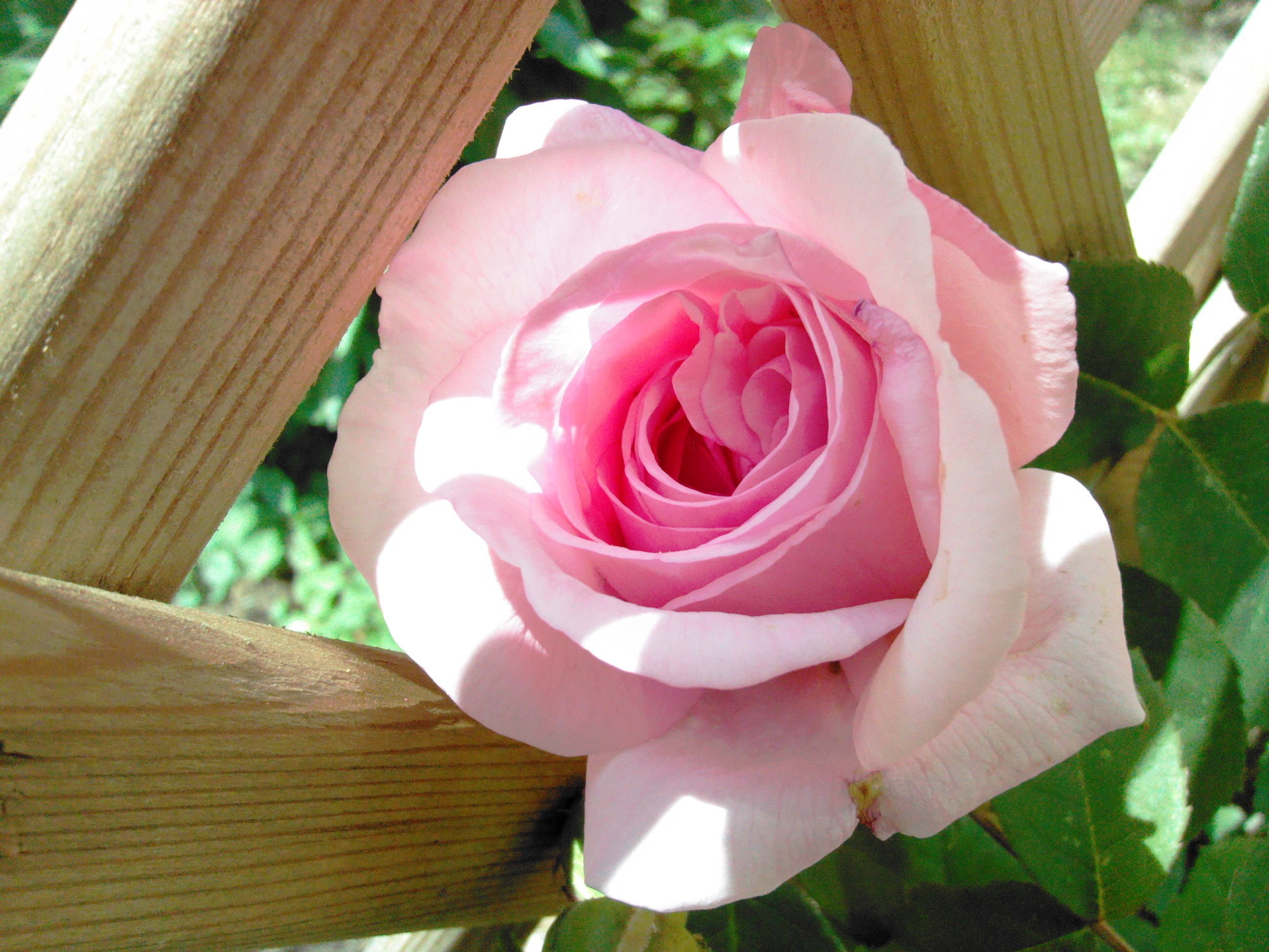 David Austin Rose 'Constance Spry'